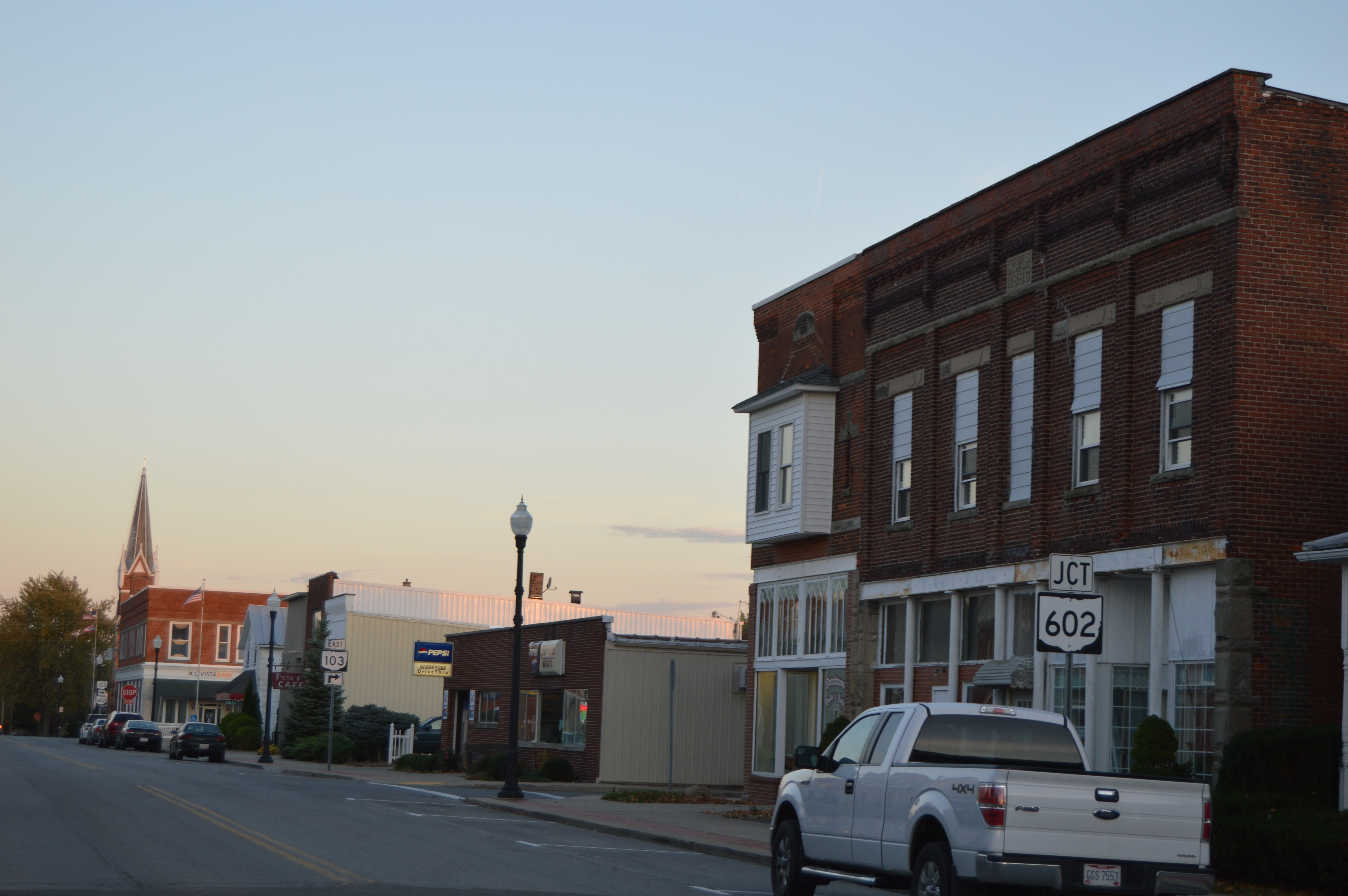 Looking eastward on Mansfield Street (State Route 103) from the Monroe Street intersection in New Washington, Ohio, United States.